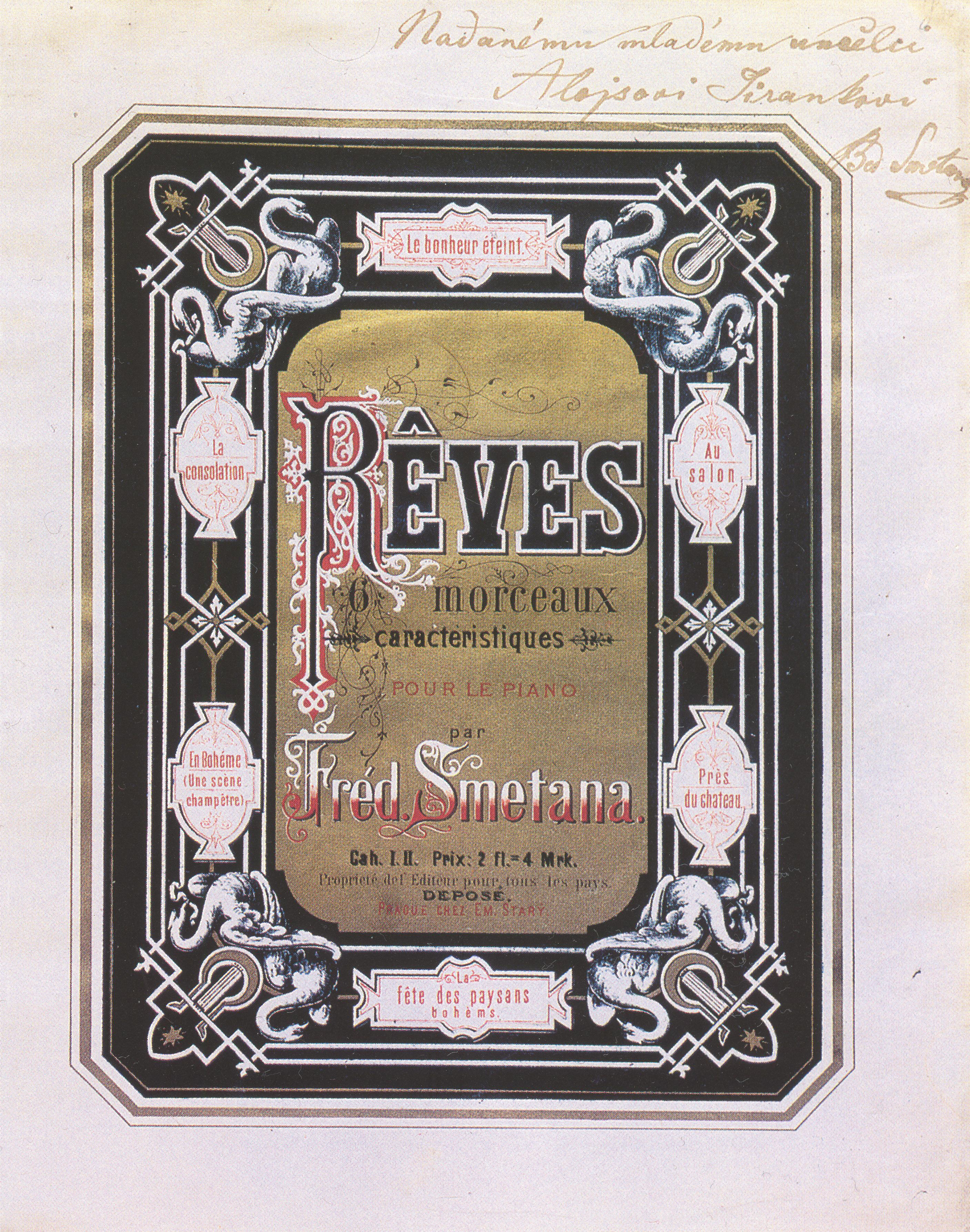 Cover of Bedřich Smetana's piano cycle 'Rêves', edition Emilián Starý, 1879